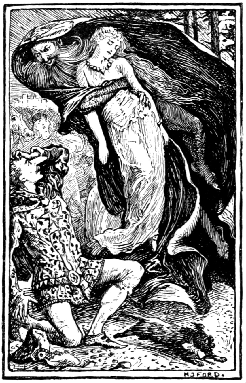 Image from Prince Hyacinth and the dear little princess in The Blue Fairy Book.